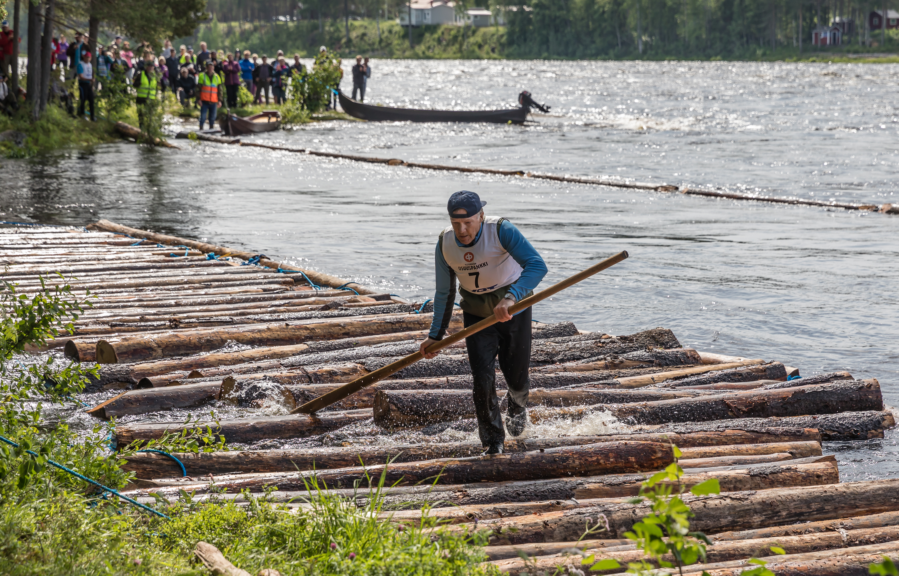 Log drivers in Tornionjoki, Pello, Finland